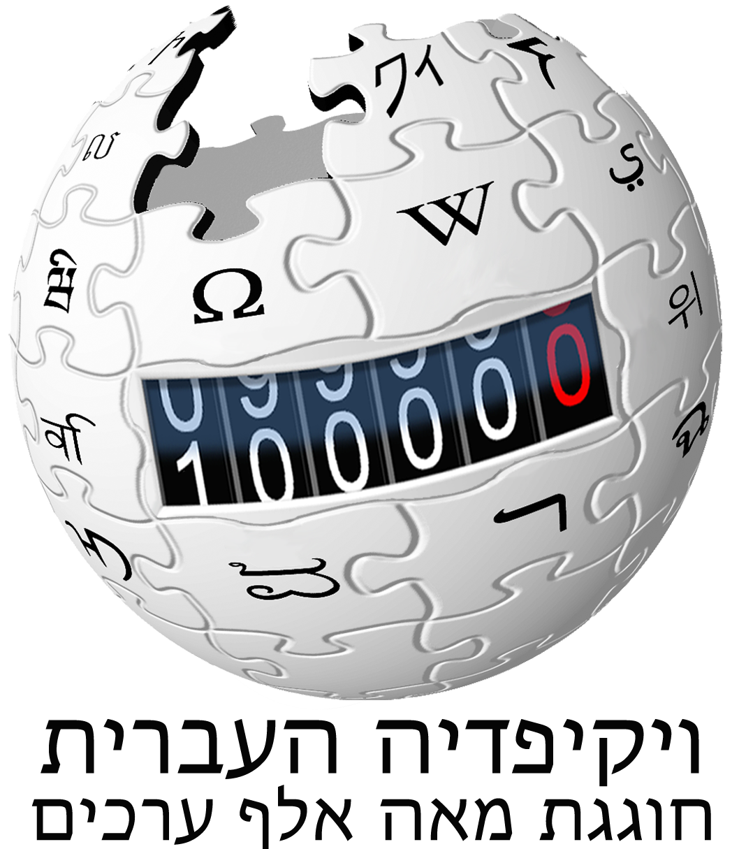 The Hebrew Wikipedia Logo modified to celebrate the 100,000th article on Hebrew Wikipedia